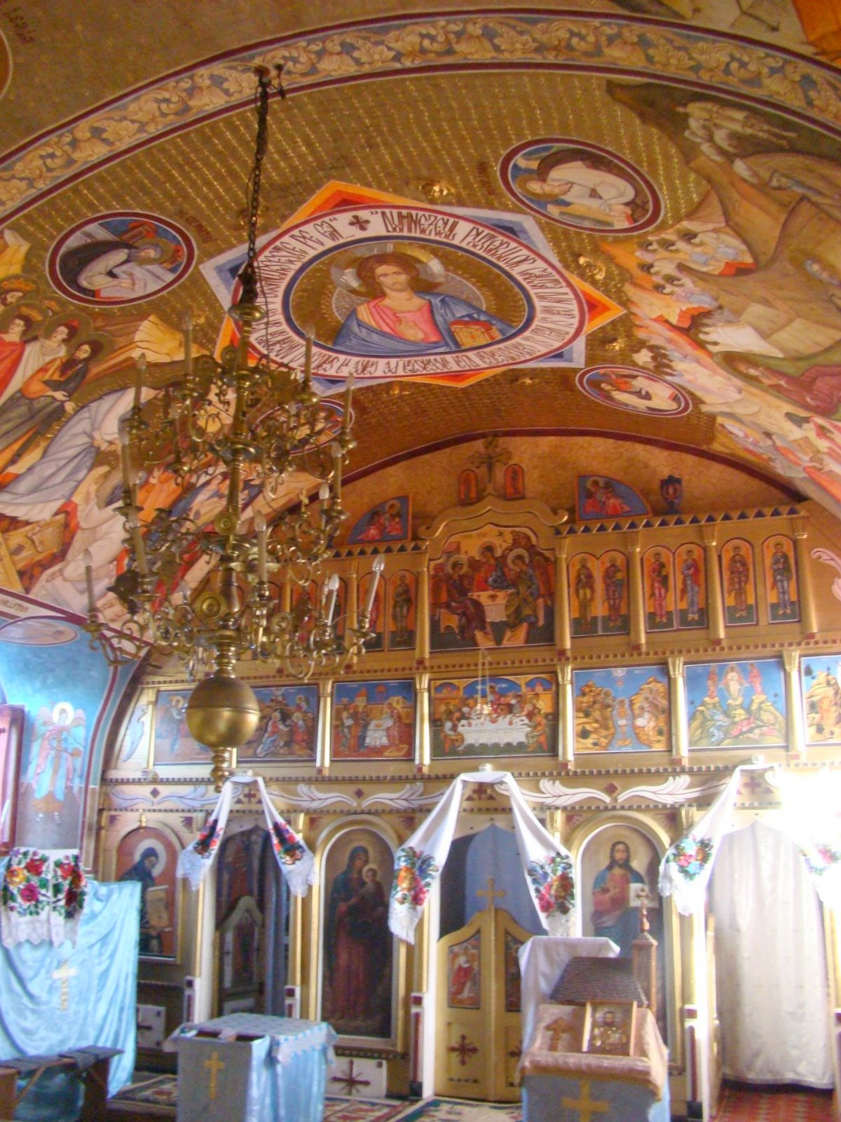 Church of the Ascension in Podeni, Cluj county, Romania